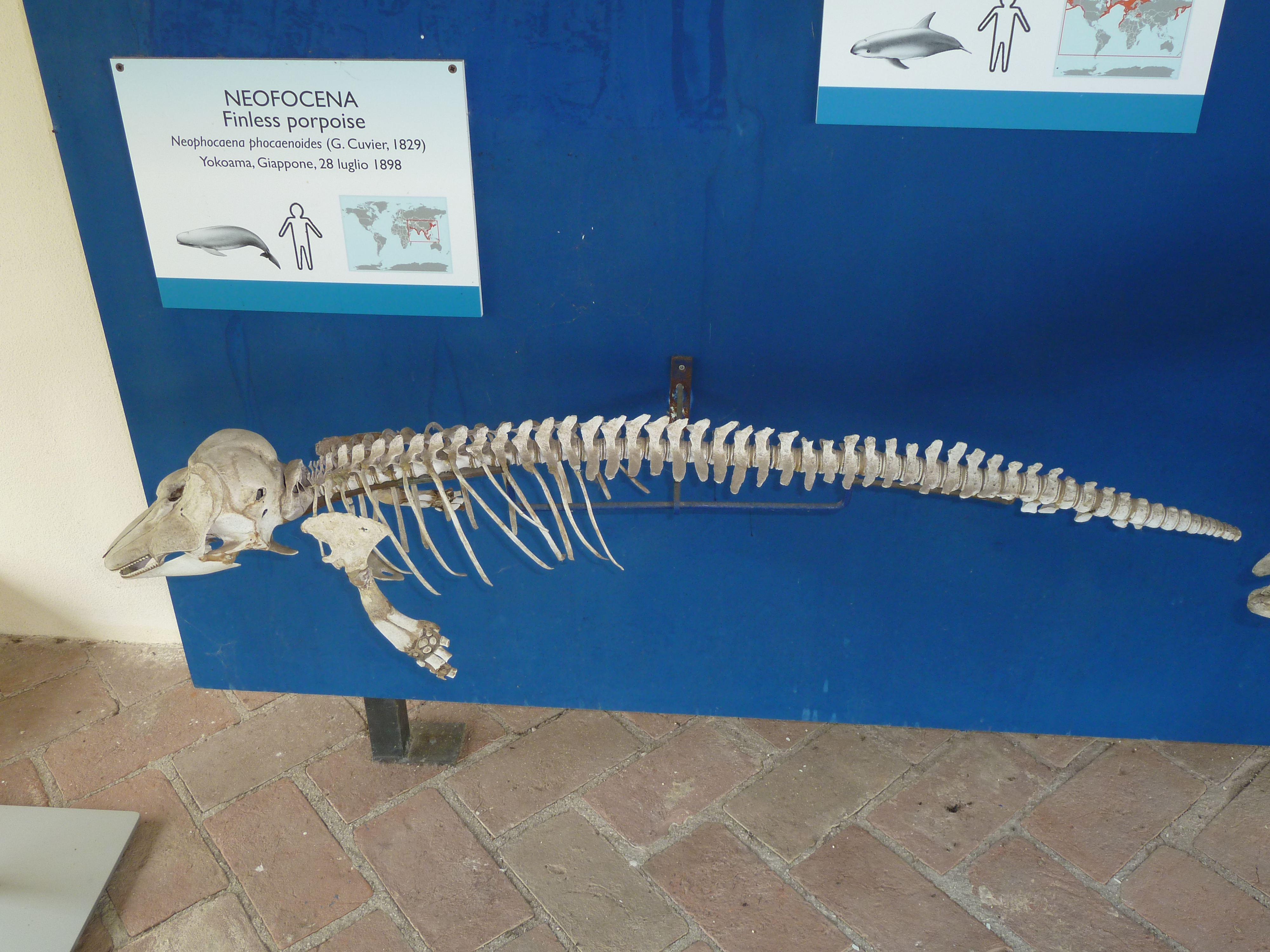 Neophocaena phocaenoides Certosa di Pisa museum